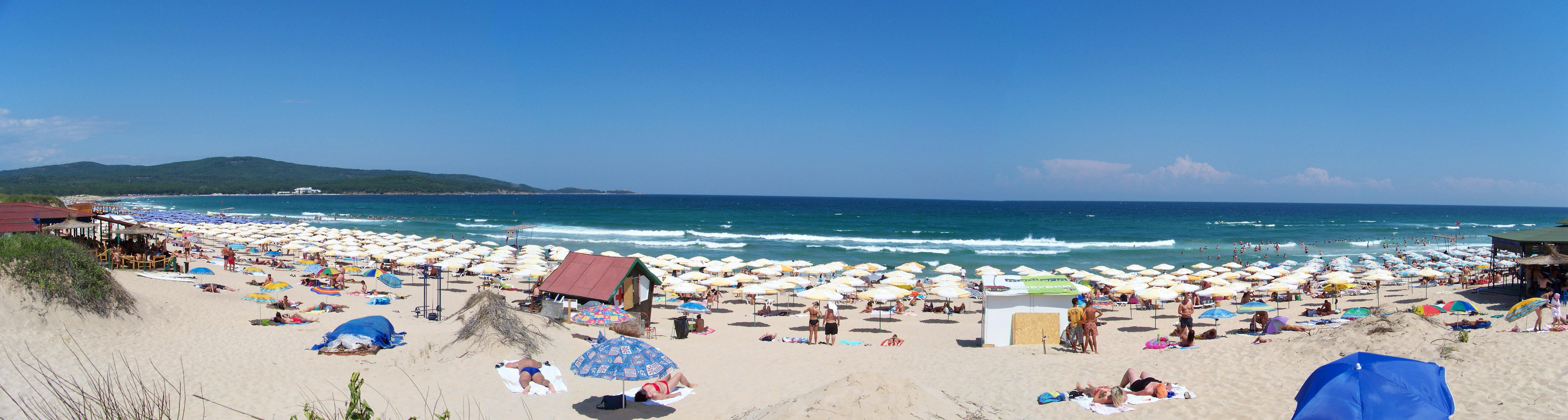 Primorsko